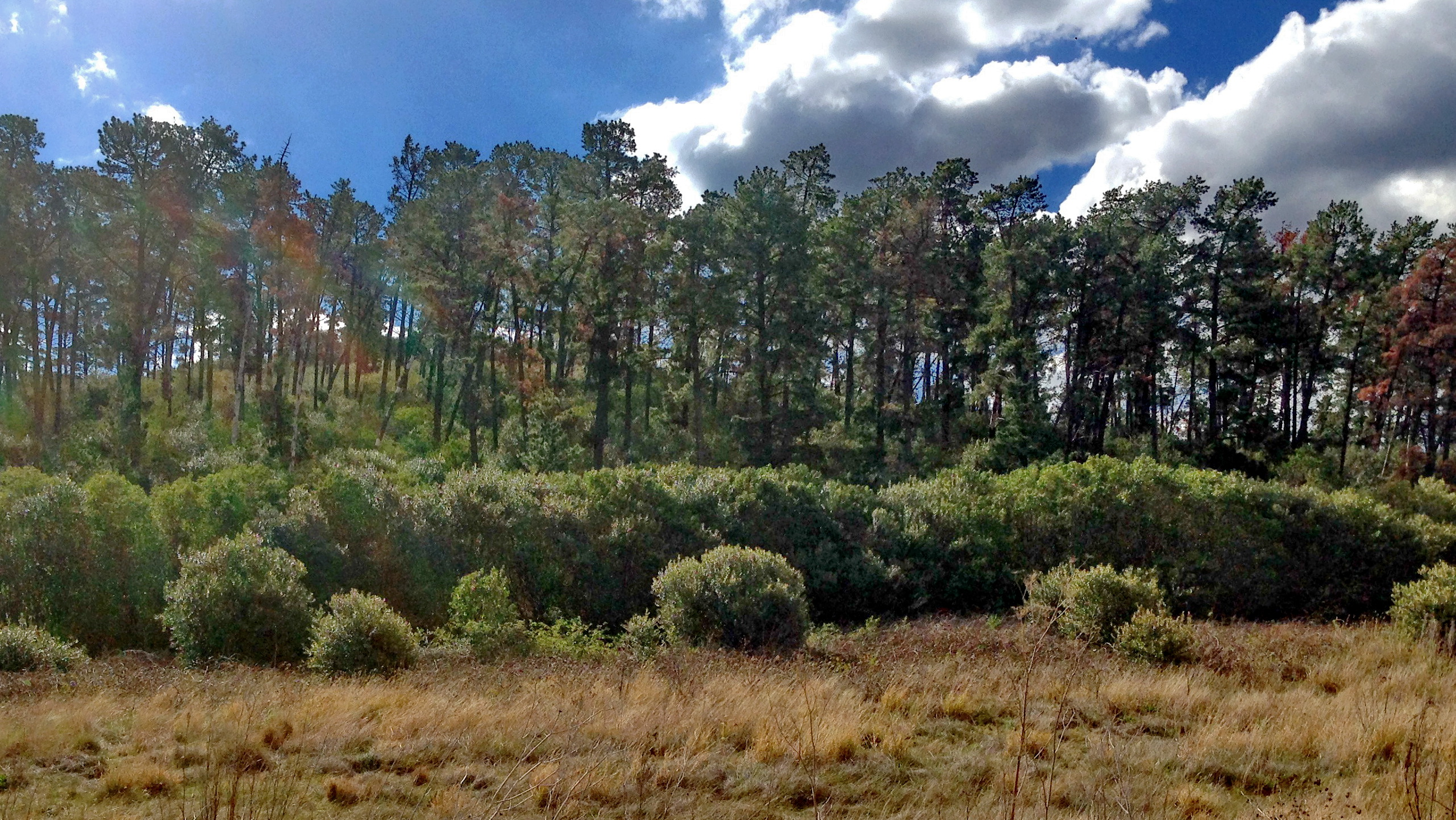 Monterey Pine woodland, Sydney, Australia